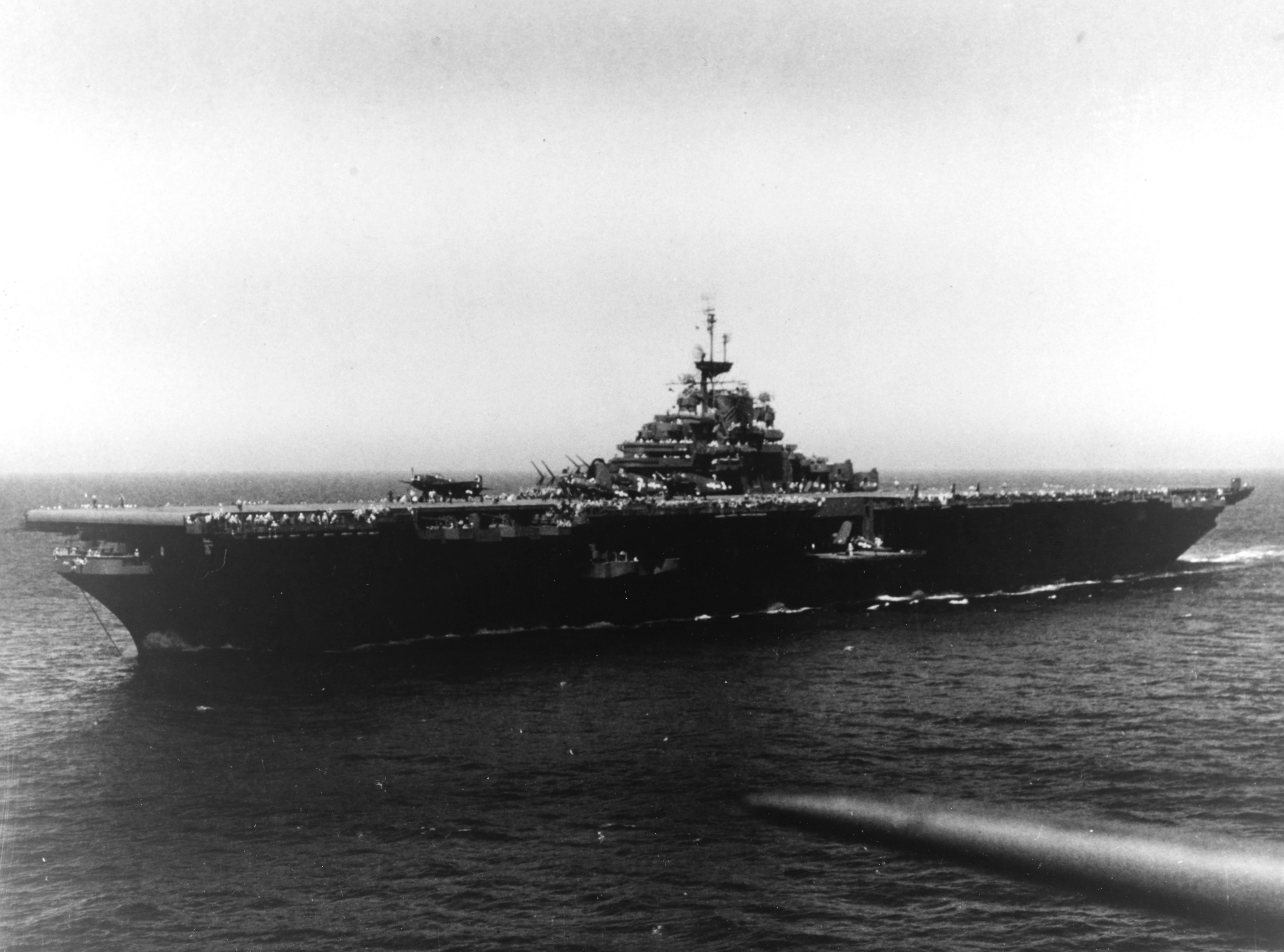 The U.S. Navy aircraft carrier USS Lake Champlain (CV-39) underway at sea on 23 June 1945. She had been commissioned on 3 June 1945. Several Grumman TBM Avenger and a Curtiss SB2C Helldiver are near the island, a Vought F4U Corsair is parked on the lowered port elevator.